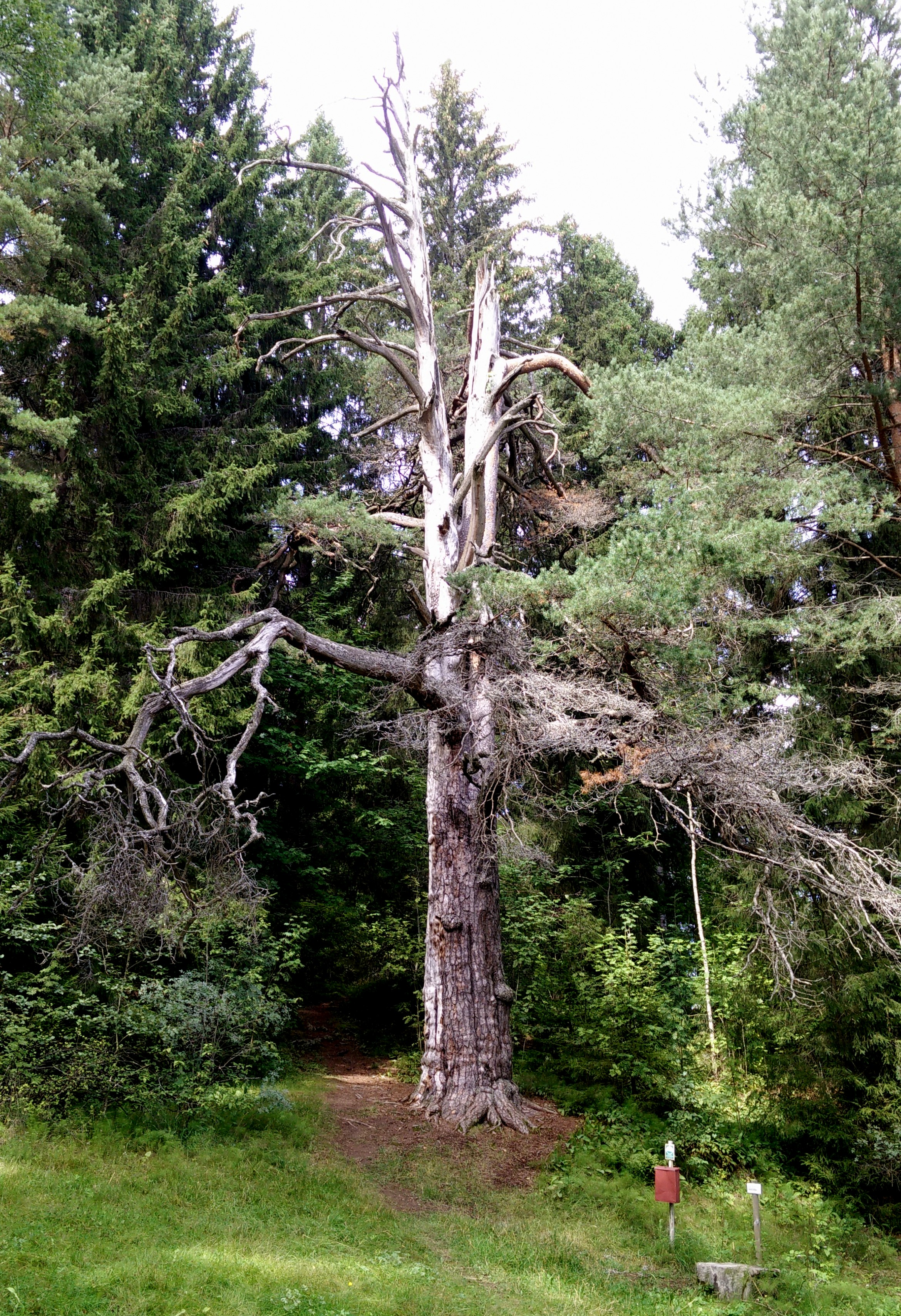 Timin mänty, Hämeenkyrö, Finland.